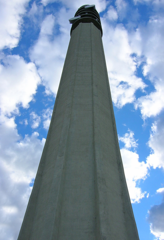 This is an image of the Aliant Tower in Moncton. At 127m it is the tallest structure in the city.